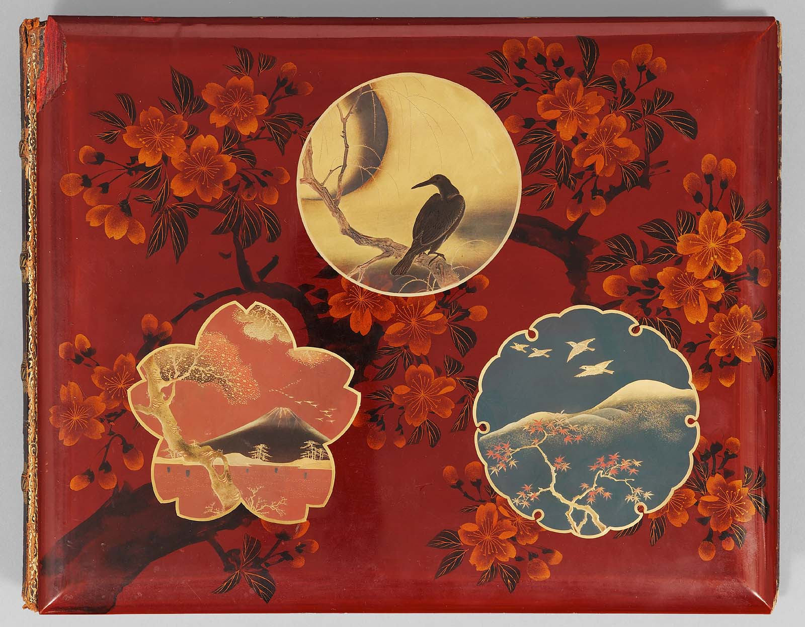 The cover of a lacquered photographic album by A. Farsari & Co., c. 1890. 'Art & Artifice: Japanese Photographs of the Meiji Era – Selections from the Jean S. and Frederic A. Sharf Collection at the Museum of Fine Arts, Boston', with essays by Sebastian Dobson, Anne Nishimura Morse, and Frederic A. Sharf (Boston: MFA Publications, 2004), p. 12, bottom; p. 94.